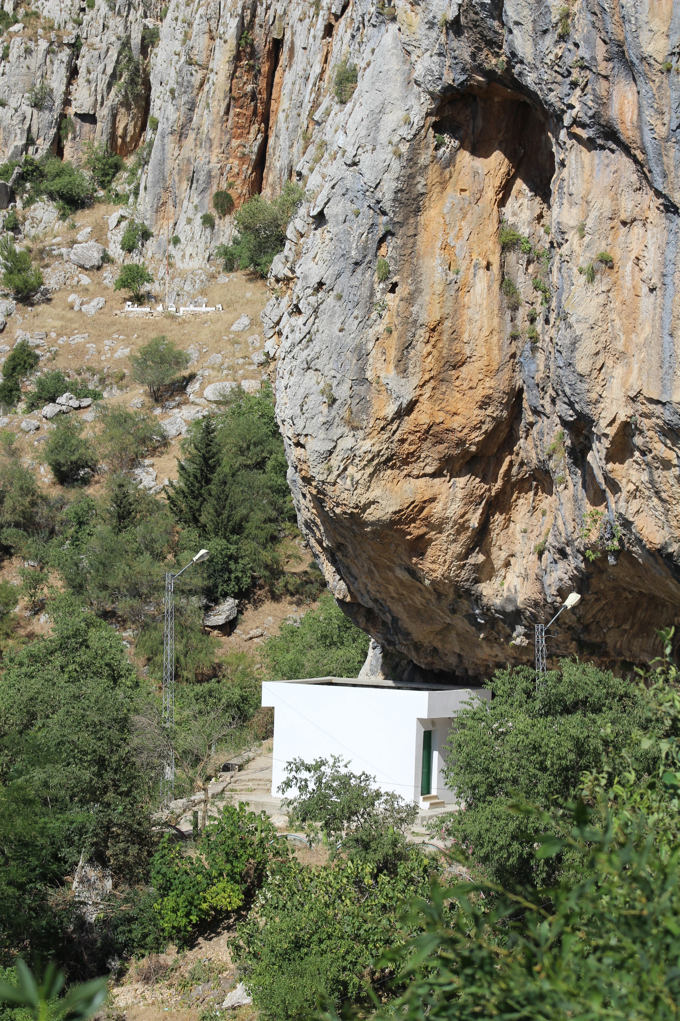 Djebba